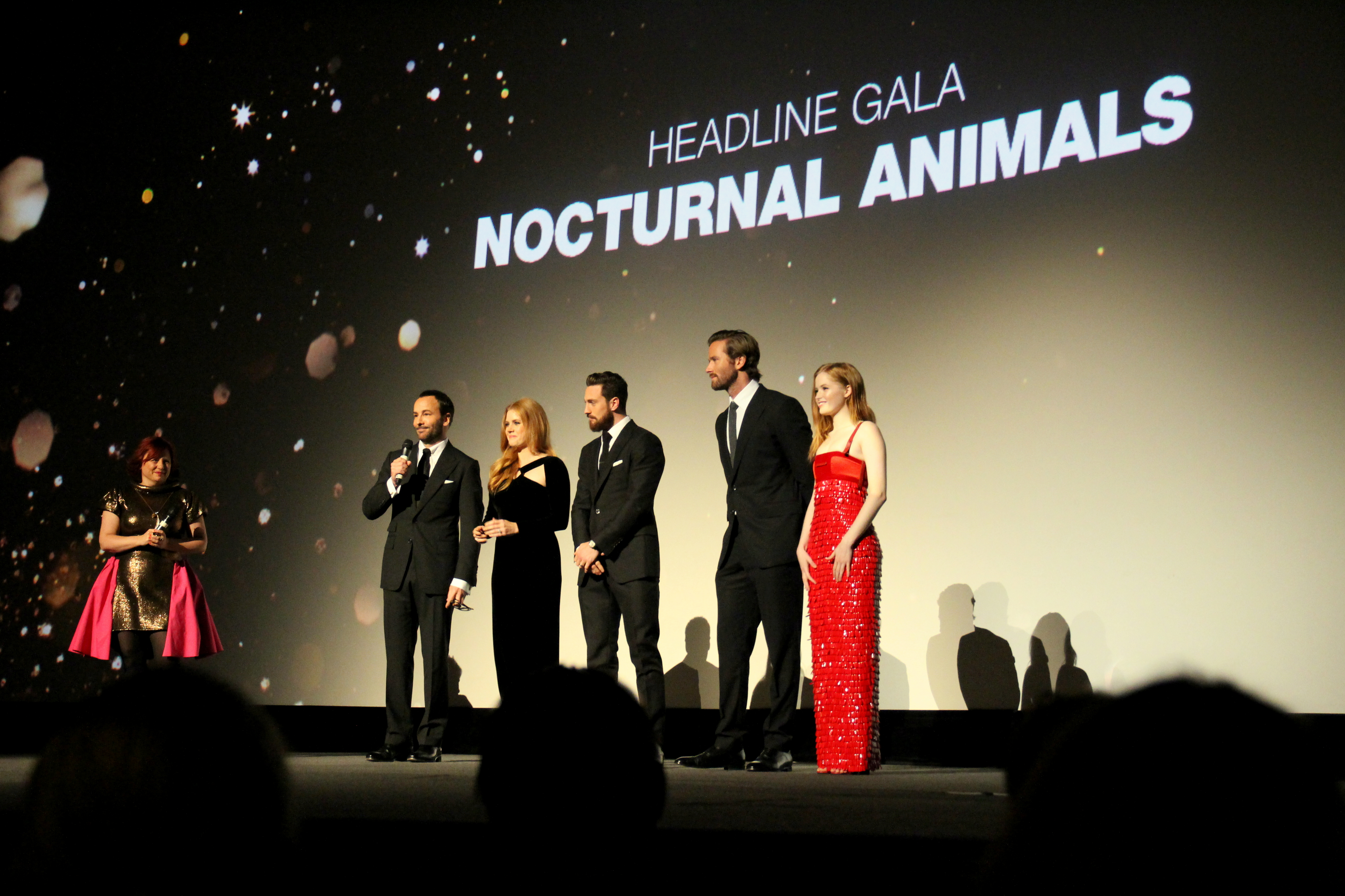 Tom Ford, Amy Adams, Aaron Taylor-Johnson, Armie Hammer, Ellie Bamber